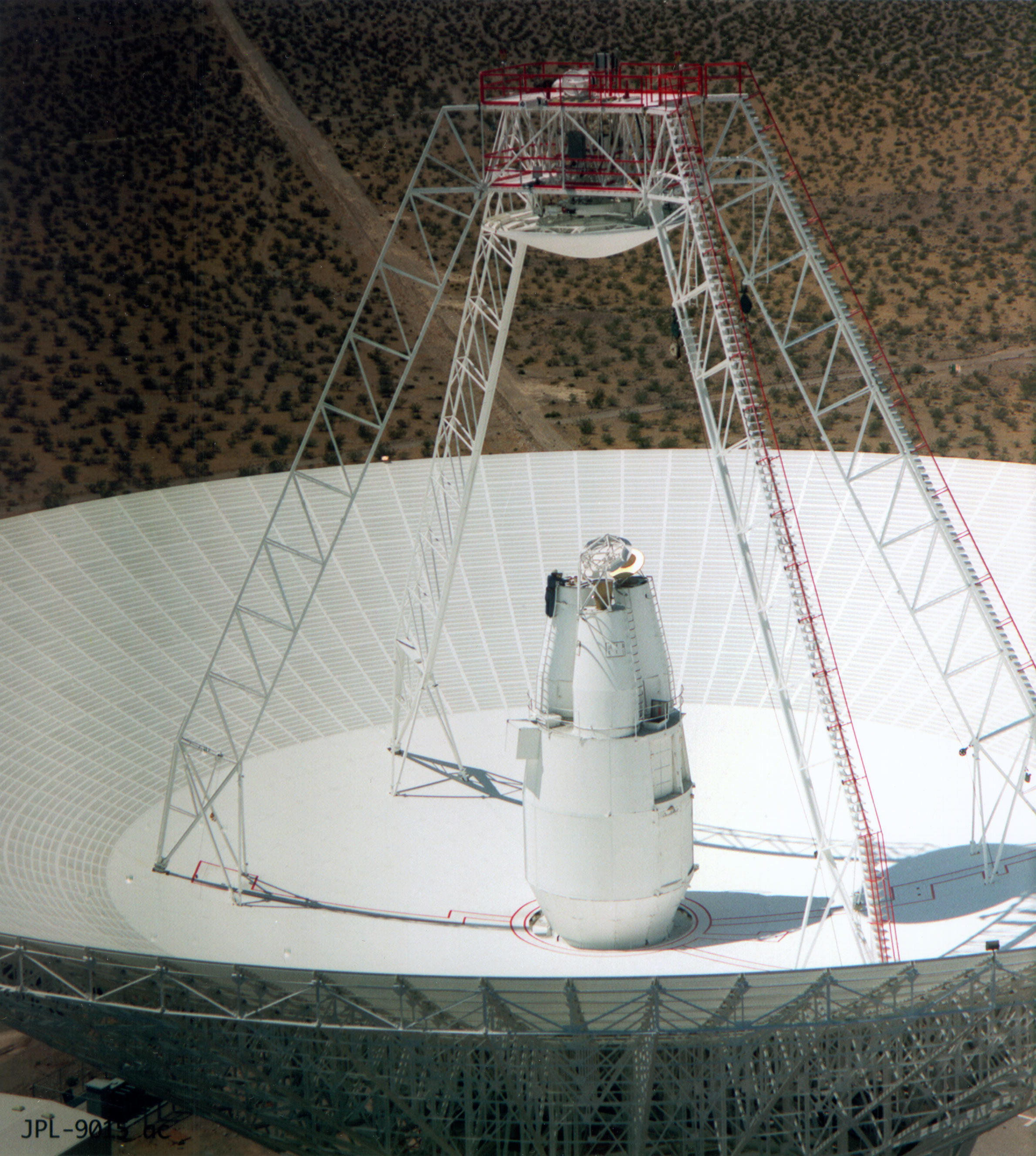 Reflector details of the 70 m (230 ft) DSS 14 antenna at Goldstone Deep Space Communications Complex.